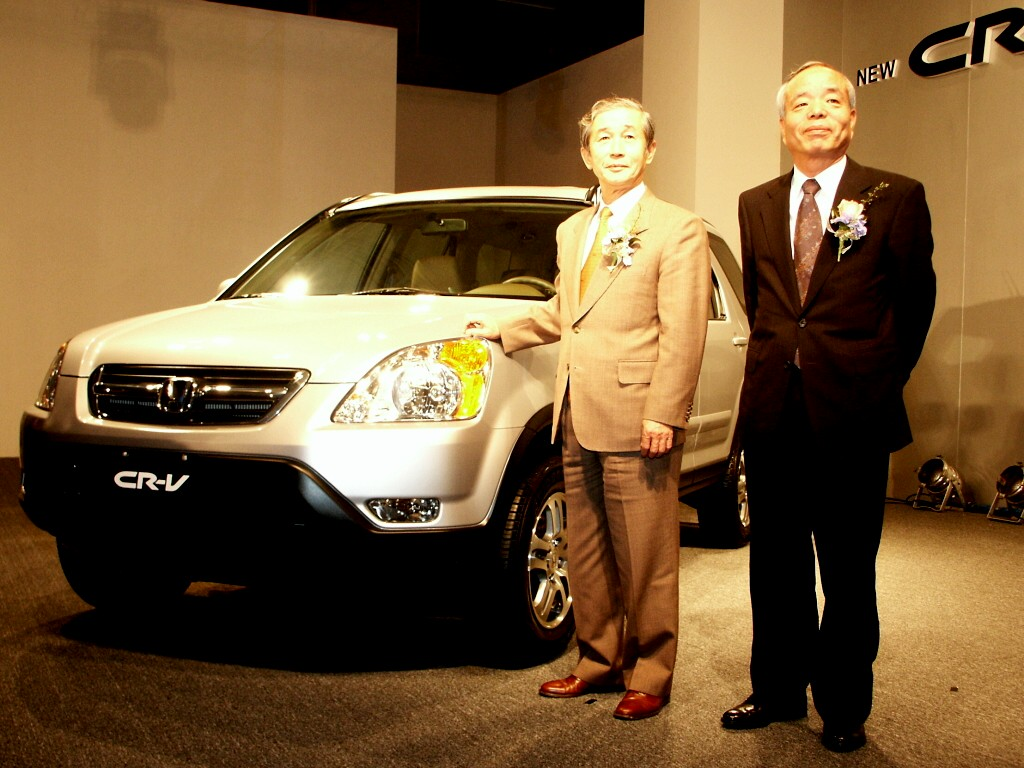 First CKD CR-V made by Honda Taiwan Motor debut in Jan. 2003